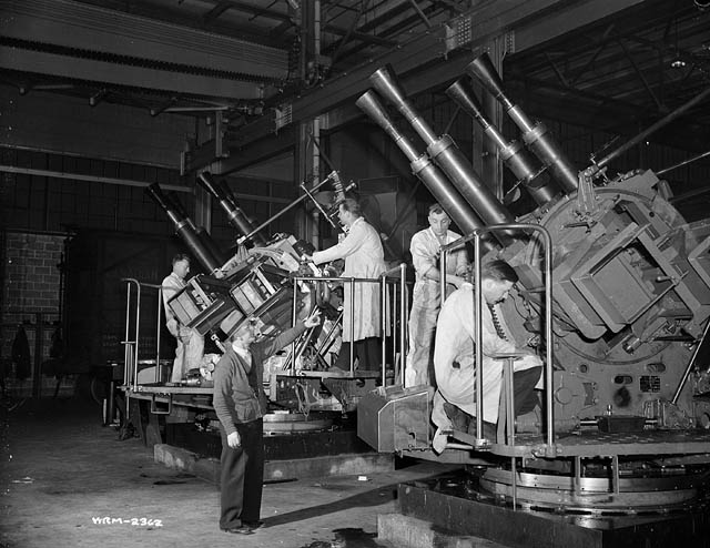 Left-side view of workmen assembling 4-barrel ant-aircraft mountings of QF 2-pounder pom-poms at the Dominion Engineering Works plant. Longueuil, Quebec. For front view see File:2 pounder 4-barrel pom-pom Dominion Engineering front 1942 LAC 3196178.jpg